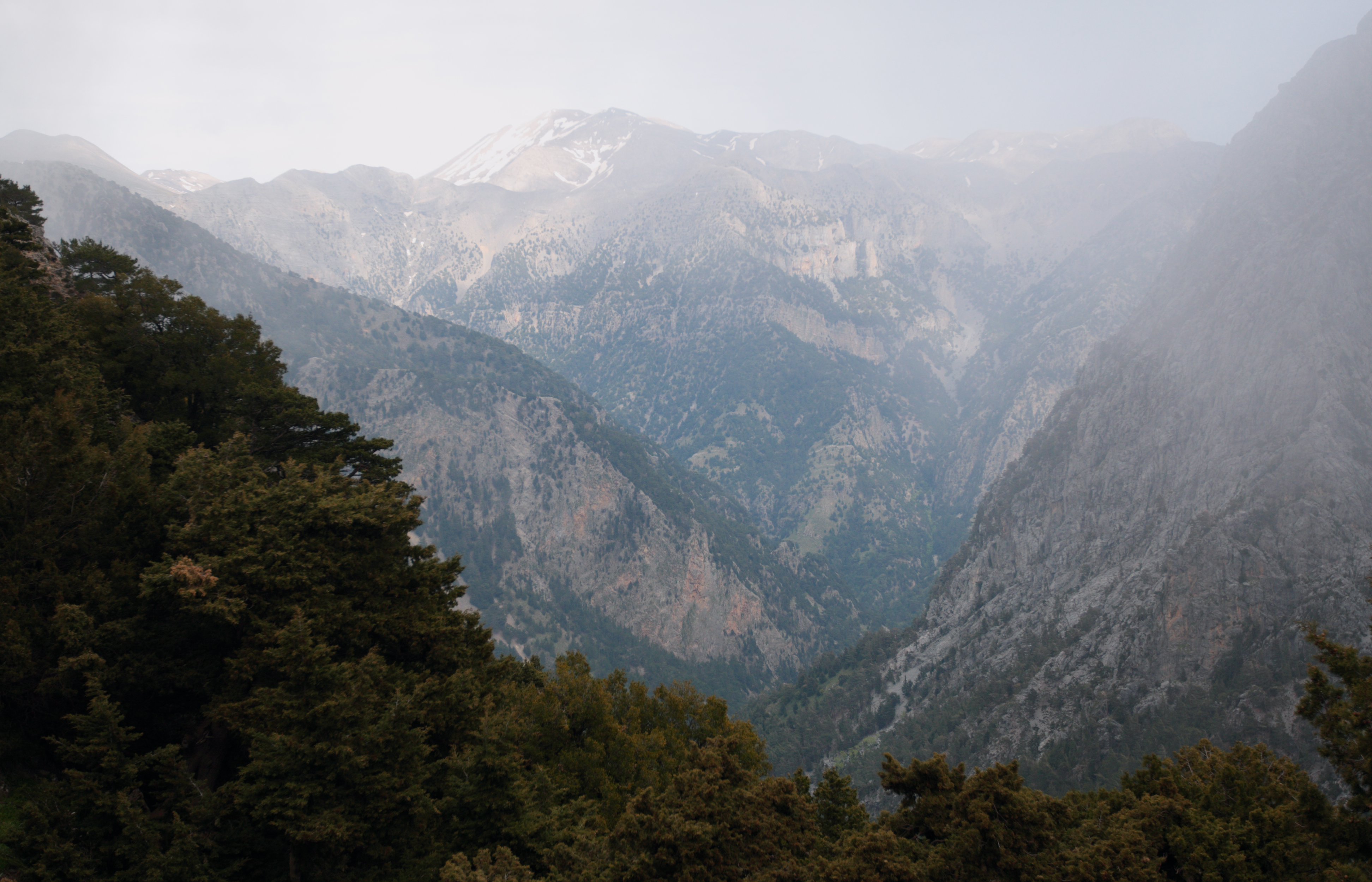 Samariá Gorge from Xyloskalo, Crete